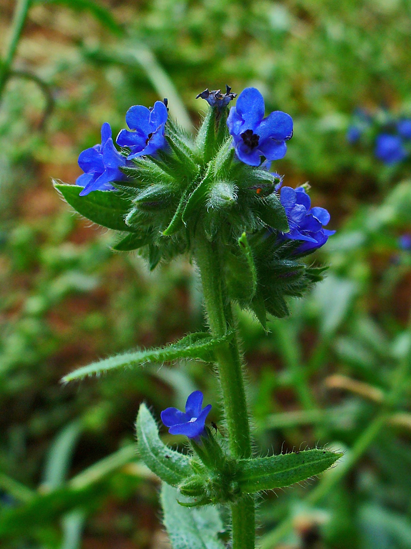 Anchusa azurea, Boraginaceae, Italian Bugloss, Large Blue Alkanet, inflorescence; Botanical Garden KIT, Karlsruhe, Germany.